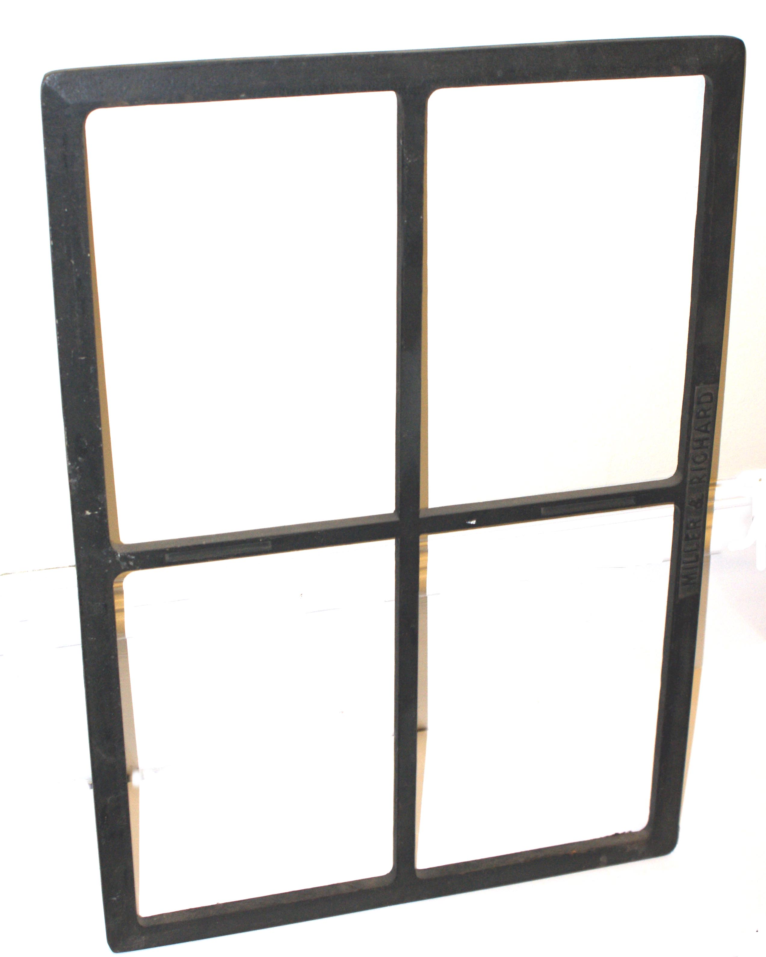 Miller & Richard chase. Metal frame in a rectangular shape, divided into four forms. A chase is a metal frame into which type, blocks etc are fixed before printing Accession Number: SH.2009.396.3 This item is on display at the Writer's Museum, Lady Stairs Close, Edinburgh. Miller & Richard were a world famous Edinburgh type foundry. The firm supplied type to print firms all over the globe. The company was established by William Miller, who had trained at Alexander Wilson?s foundry in Glasgow. In 1809 he began operations out of Reikies Court, just off Nicolson Street. It expanded to take in the surrounding buildings including a chapel, a school, a lying-in hospital and finally a street was roofed over to make a woodworking shop. By 1825 the company was type founders for His Majesty of Scotland and when he was joined by his son-in-law Walter Richard in 1838 the firm became Miller & Richard. Miller & Richard founded a strong reputation of typographic innovation. They were responsible for founts such as the Miller & Richard Oldstyle and its boldface, now known as Old Style or Century Oldstyle; and Antique Old Style, or Bookman. The foundry closed in 1952, when the designs passed to the English company Stephenson Blake. Edinburgh City of Print is a joint project between City of Edinburgh Museums and the Scottish Archive of Print and Publishing History Records (SAPPHIRE). The project aims to catalogue and make accessible the wealth of printing collections held by City of Edinburgh Museums. For more information about the project please visit